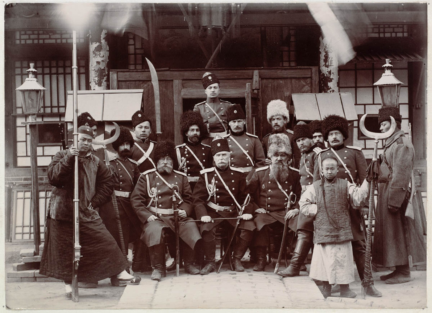 General Alexander von Kaulbars (center) and Russian soldiers during the boxer rebellion